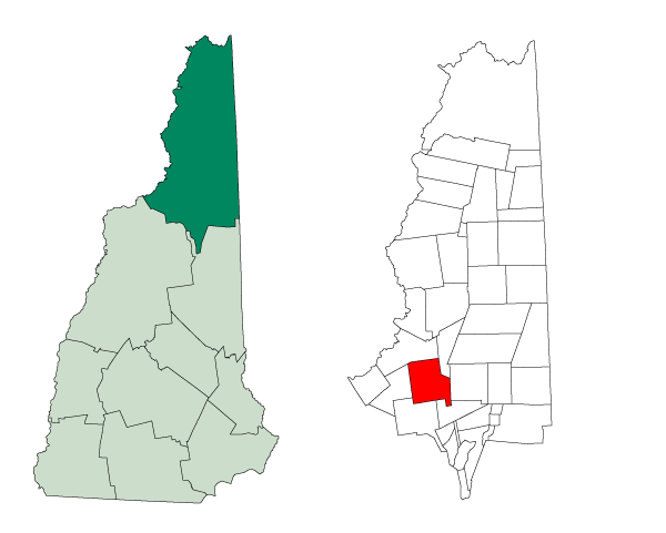 Map of a municipality in Coos County, New Hampshire